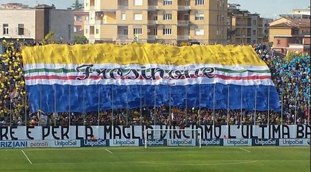 Frosinone supporters